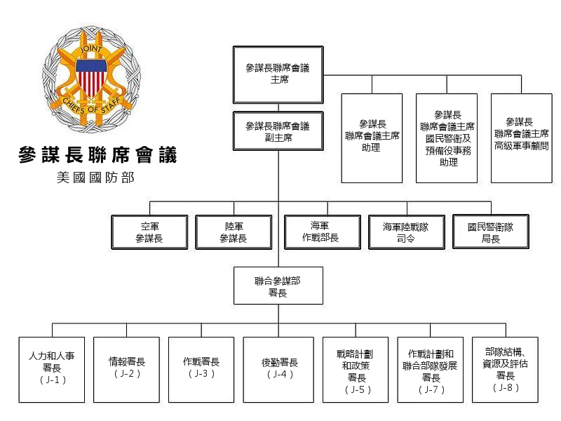 The Joint Chiefs of Chiefs of Staff Organization Chart as of Jan 2012